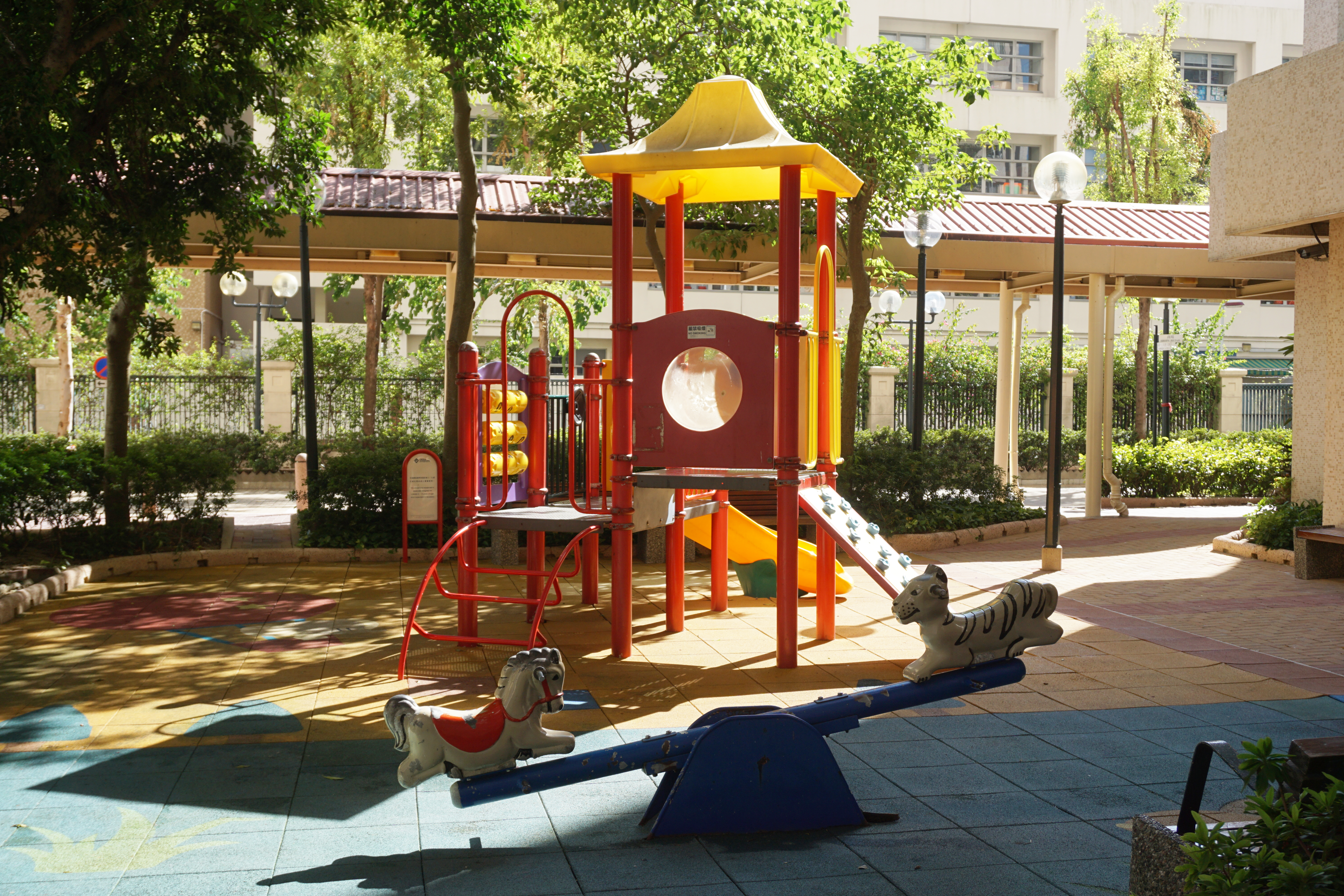 Bauhinia Garden in Tseung Kwan O, Hong Kong.